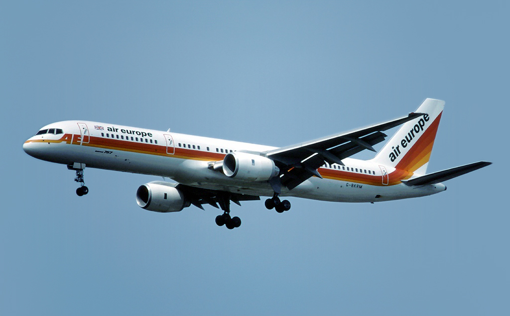 G-BKRM (cn 22176/14)